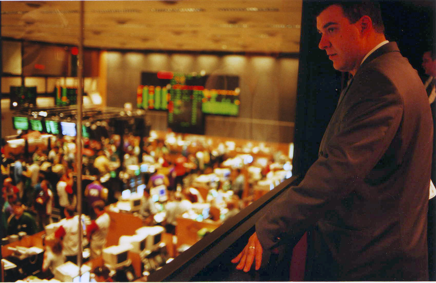 Benoit Laliberte overlooks Montreal Stock Exchange on first day of JITEC trading